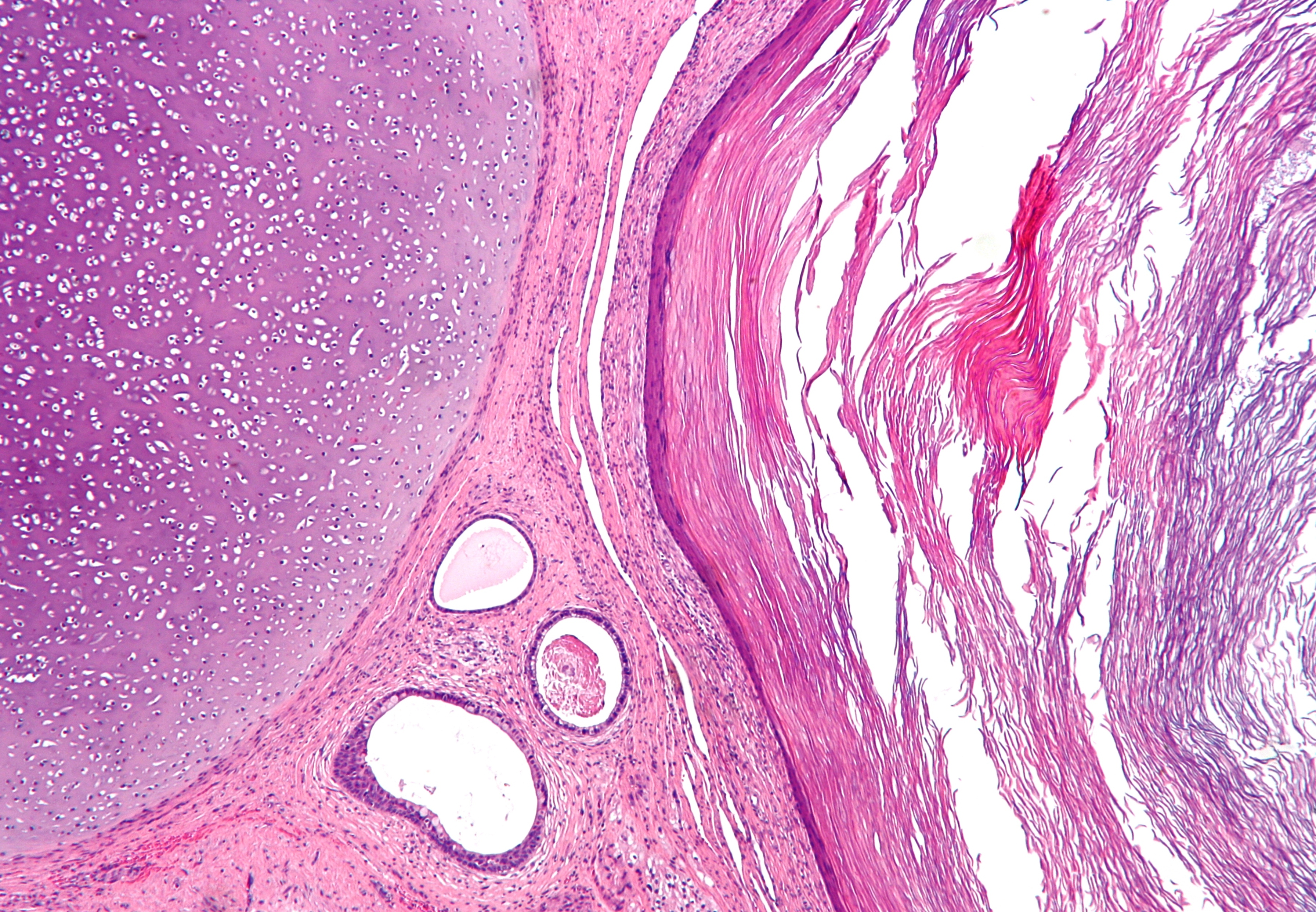 Low magnification micrograph of a mature teratoma. H&E stain. Products of all three germ layers are seen in the image: Mesoderm: immature cartilage (left of image). Endoderm: gastrointestinal lining cells/glands (centre-bottom of image). Ectoderm: epidermis with keratin (right of image). Related images Low mag. Intermed. mag. High mag. Another case: Intermed. mag.